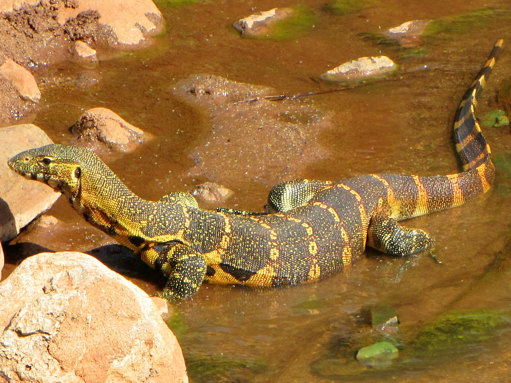 Nile Monitor (Varanus niloticus), Lake Manyara Park, Tanzania